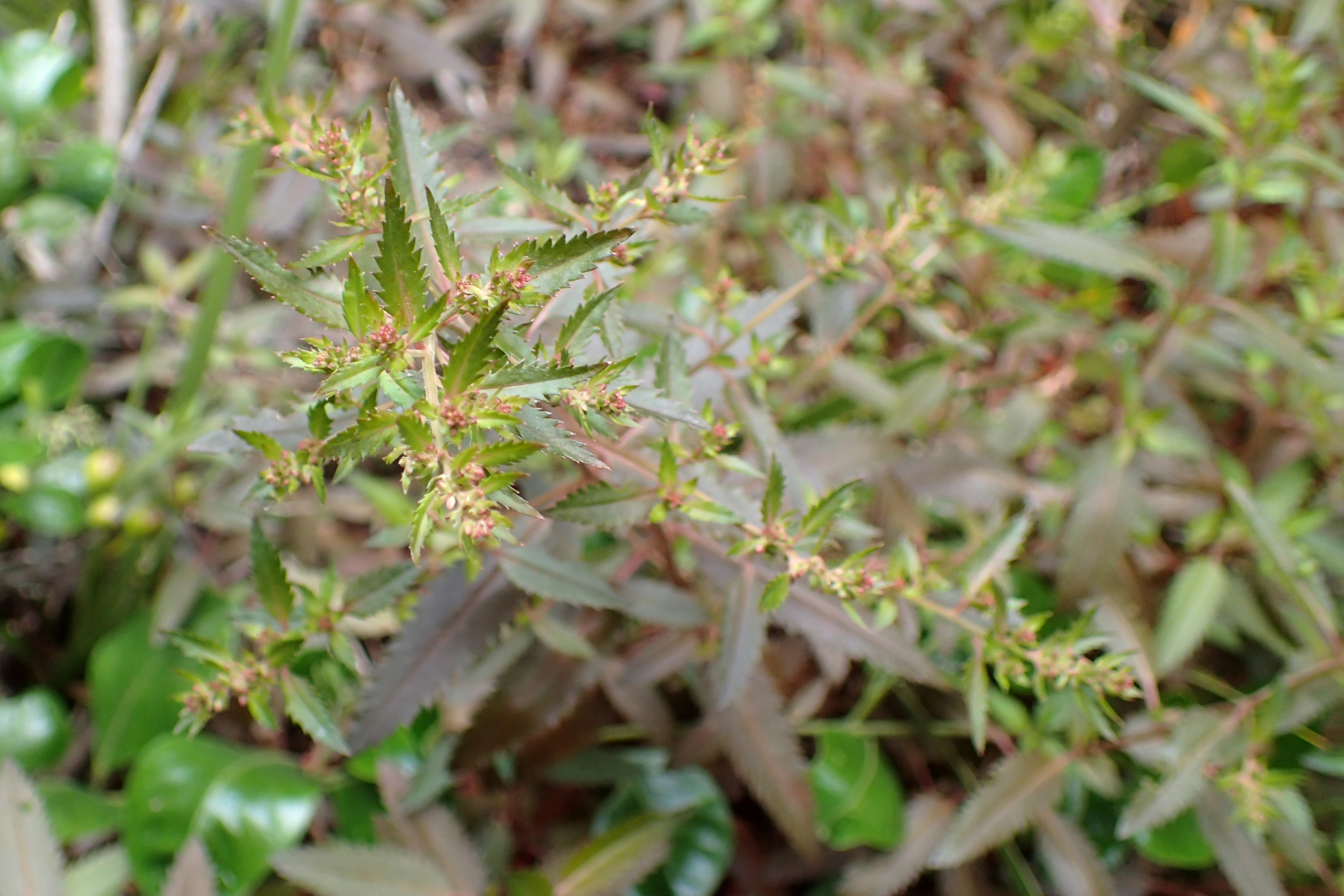 Haloragis erecta on Waikaremoana Lake, Hawkes's Bay (New Zealand)